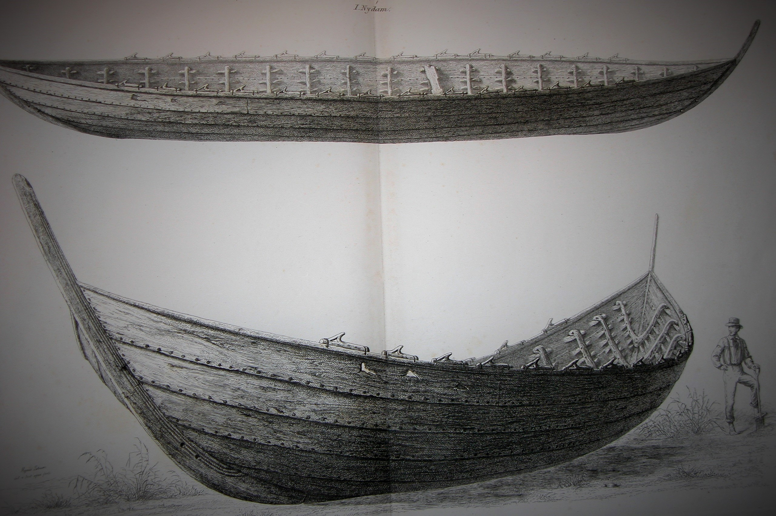 Nydam Boat (from the original book: Conrad Engelhardt. Nydam mosefund 1859-1863